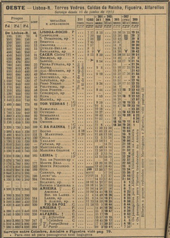 Timetable of 15th June 1913 for the trains from Lisboa - Rossio to Figueira da Foz, through the Linha do Oeste (Oeste Railway) and part of the Linha de Sintra (Sintra Railway), in Portugal. This image was published on the Guia Official dos Caminhos de Ferro de Portugal No. 168, of October 1913, and scanned by the Biblioteca Nacional de Portugal.